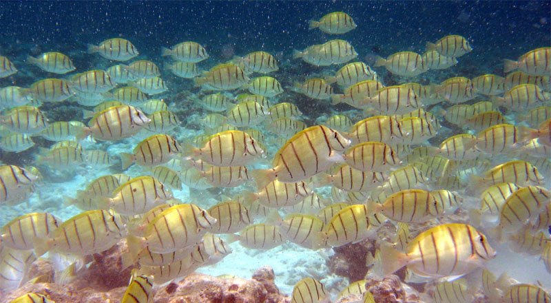 Acanthurus triostegus